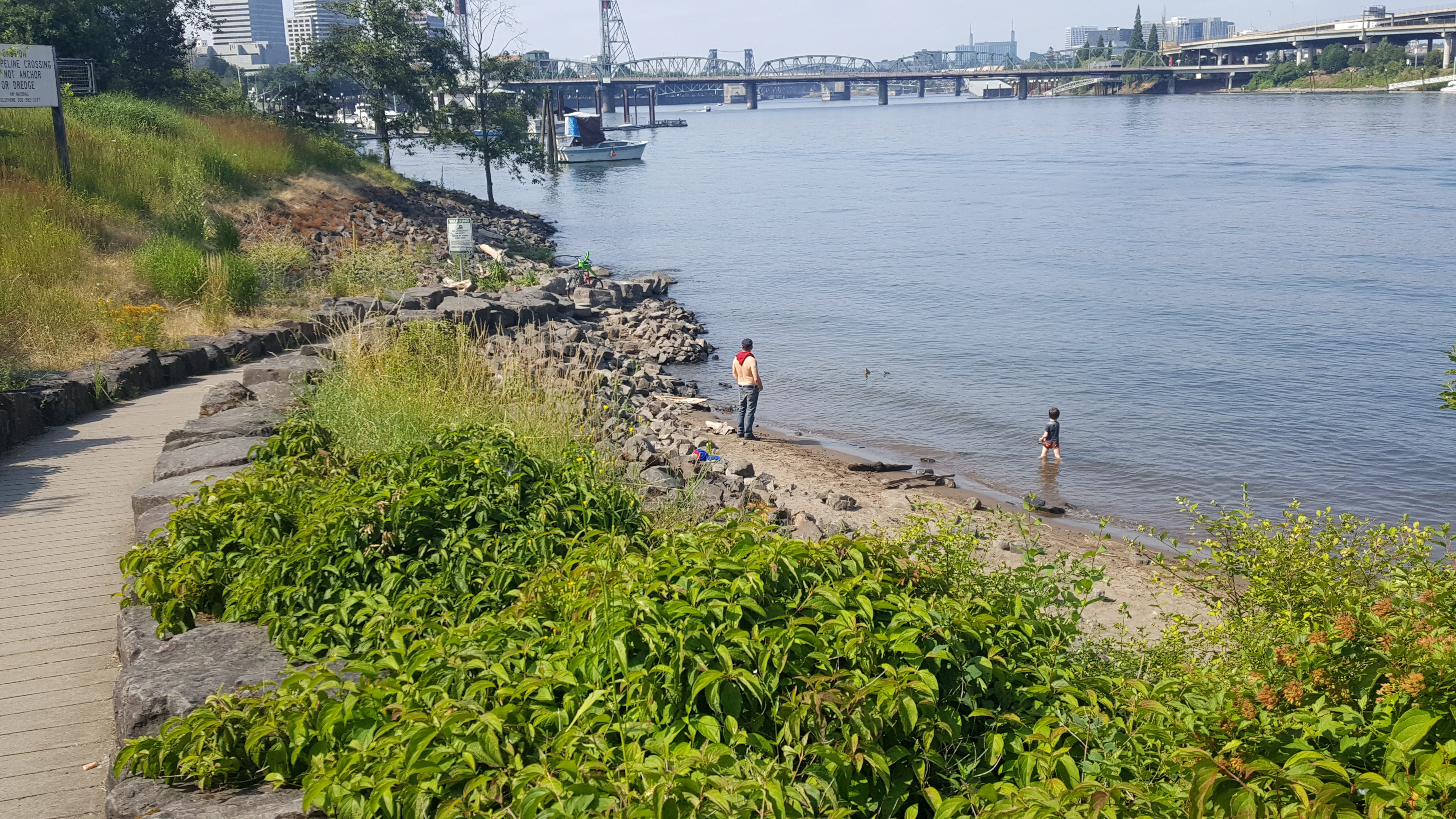 Poet's Beach, Portland, Oregon (July 2020)